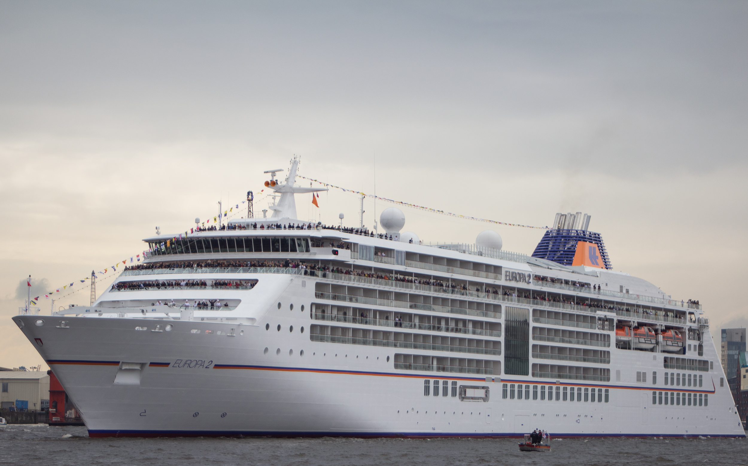 Cruise ship Europa 2 in Hamburg